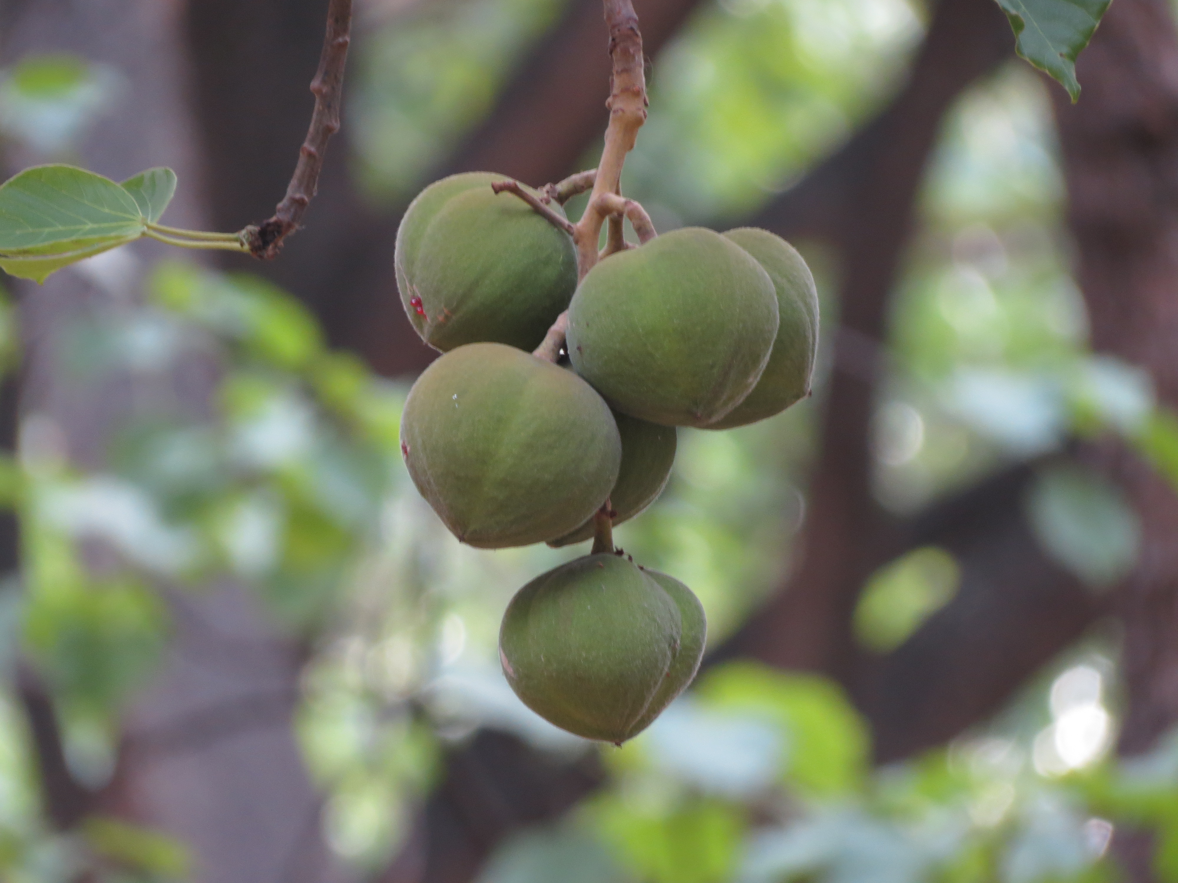 Reutealis trisperma also known as Philippine tung tree seen in Cubbon park Bangalore.